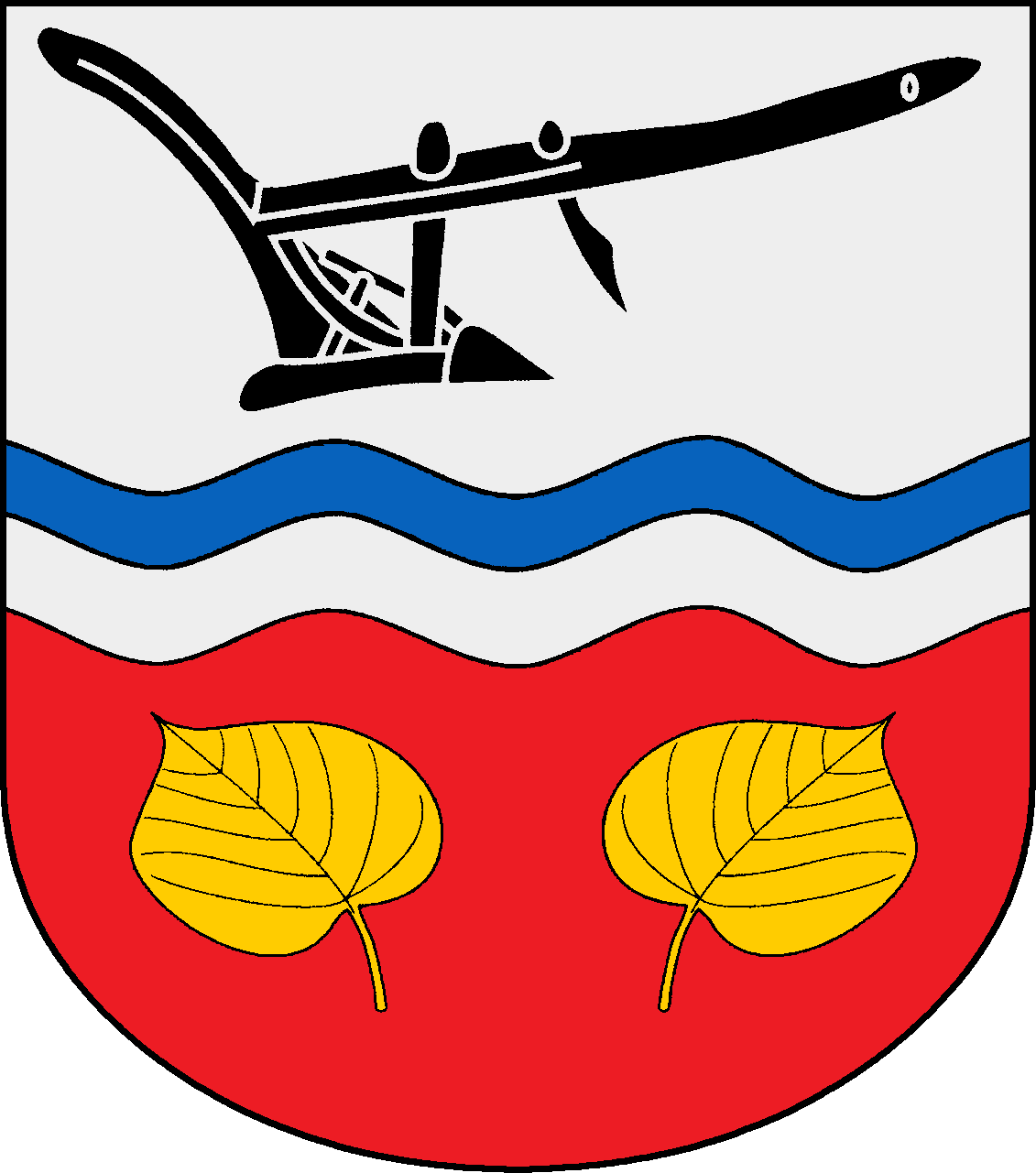 Coat of arms of the municipality Harmsdorf in Schleswig-Holstein, Germany.